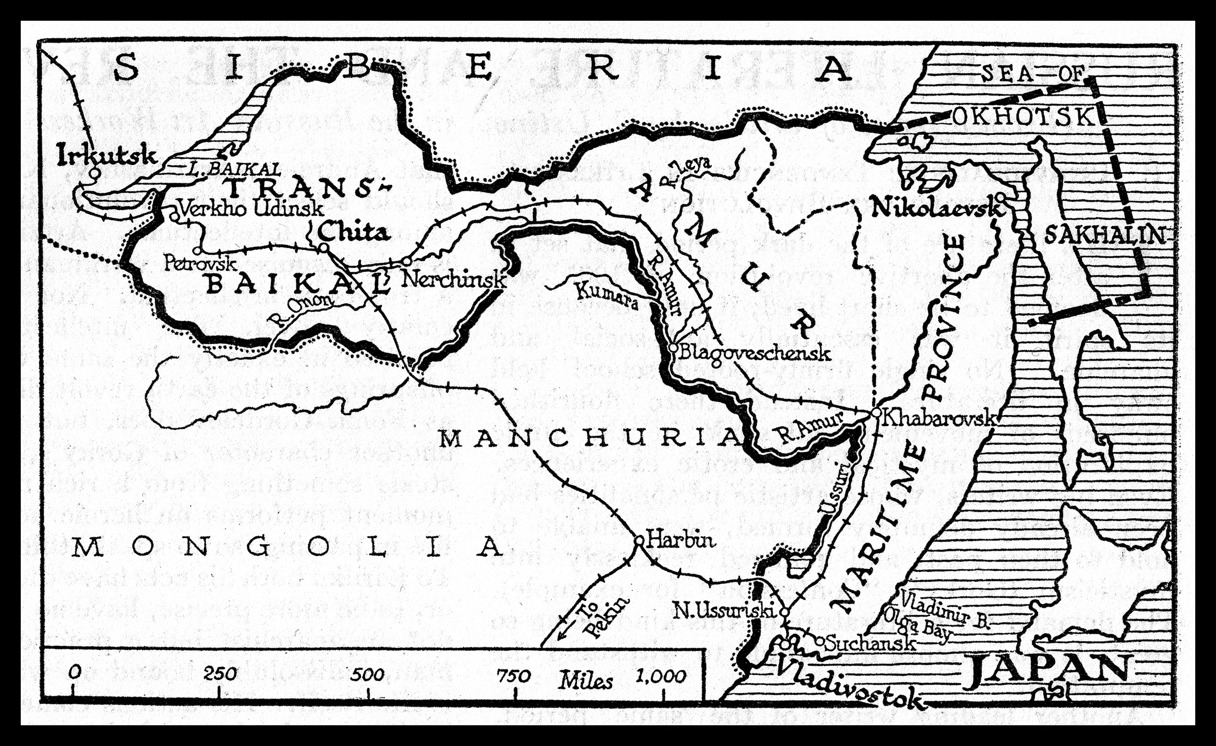 Map of the Far Eastern Republic (1920-1922)